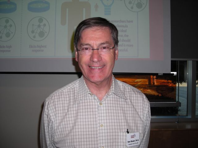 Ken Stuart, director of Seattle Biomed